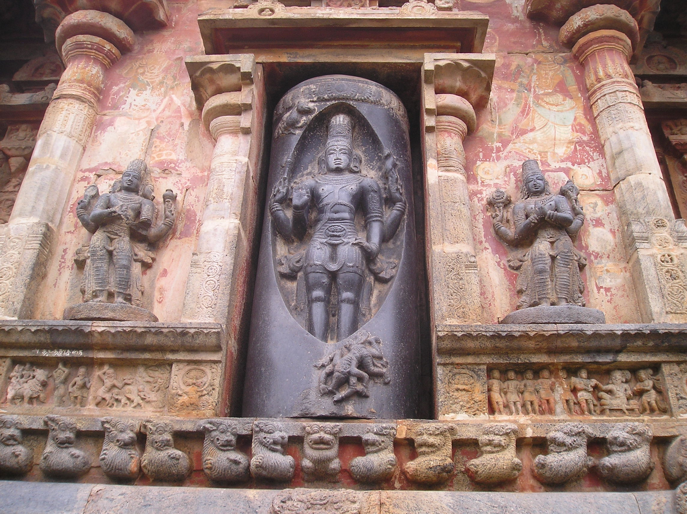 lingothbavar